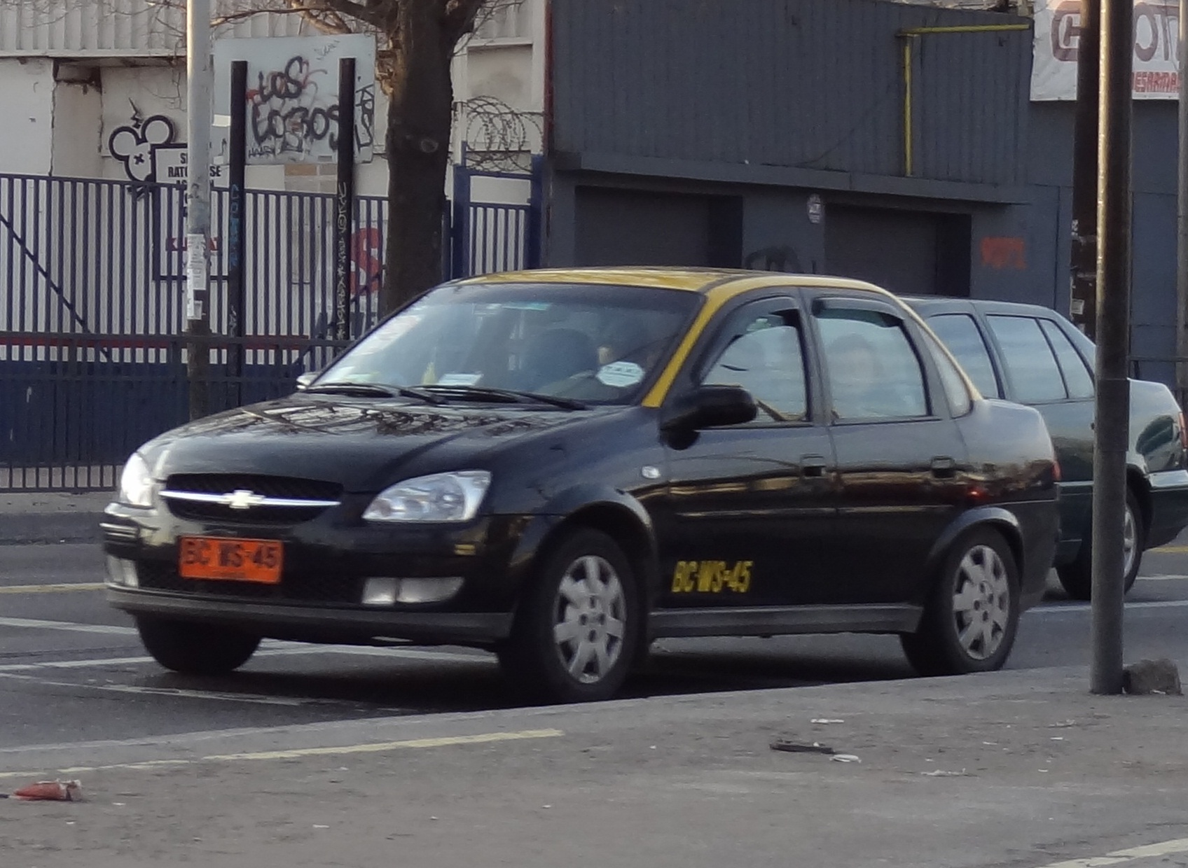 stgo. chile